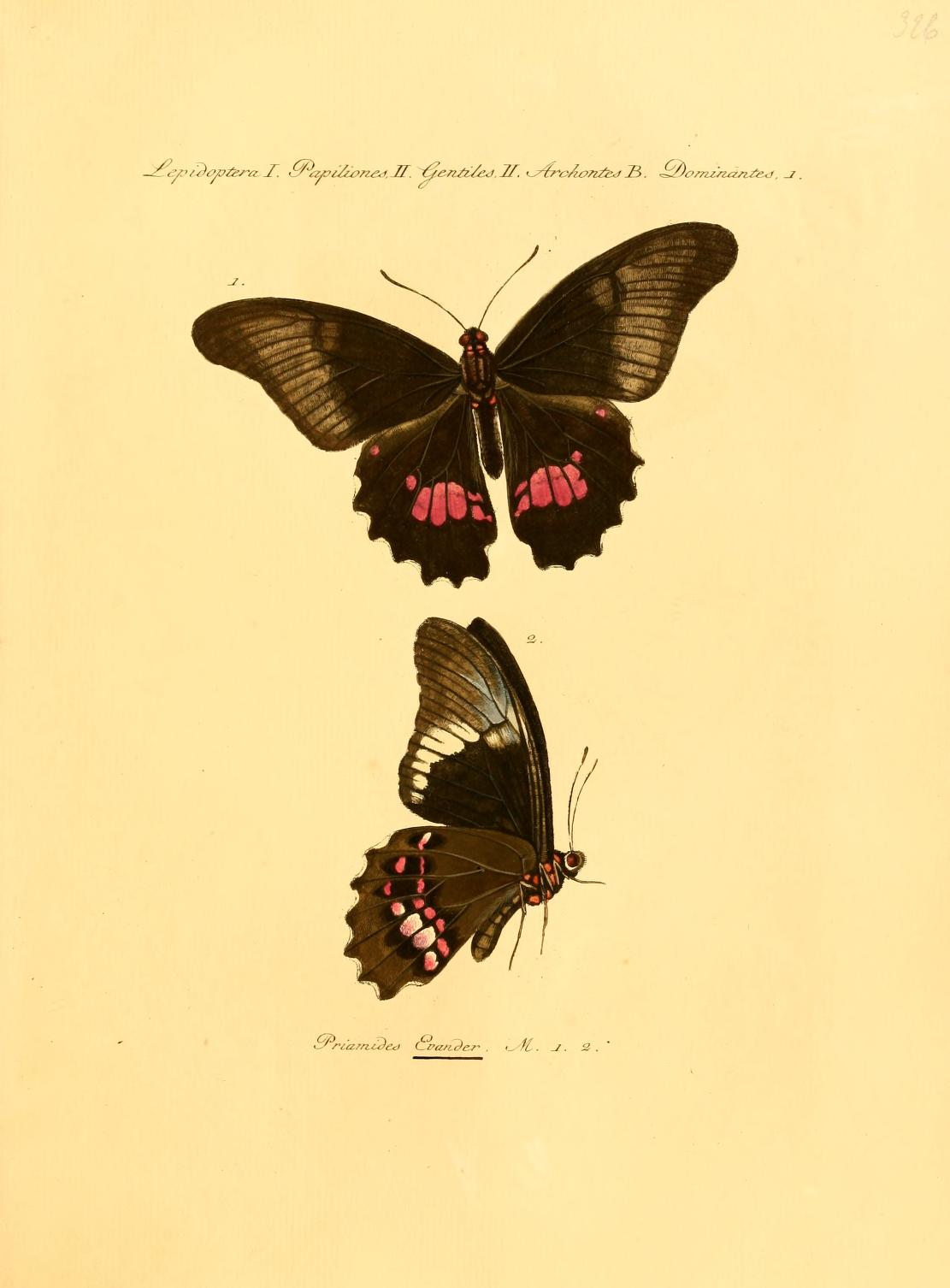 Jacob Hübner, [1821] Sammlung exotischer Schmetterlinge Vol. 2 ([1819] - [1827] Plate 112 Papilio evander Godart, 1819; Encyclopédie Méthodique. synonym for 'Papilio anchisiades capys' (Hübner, [1809])